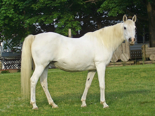 I wish she was always this white (Gray Arabian broodmare)